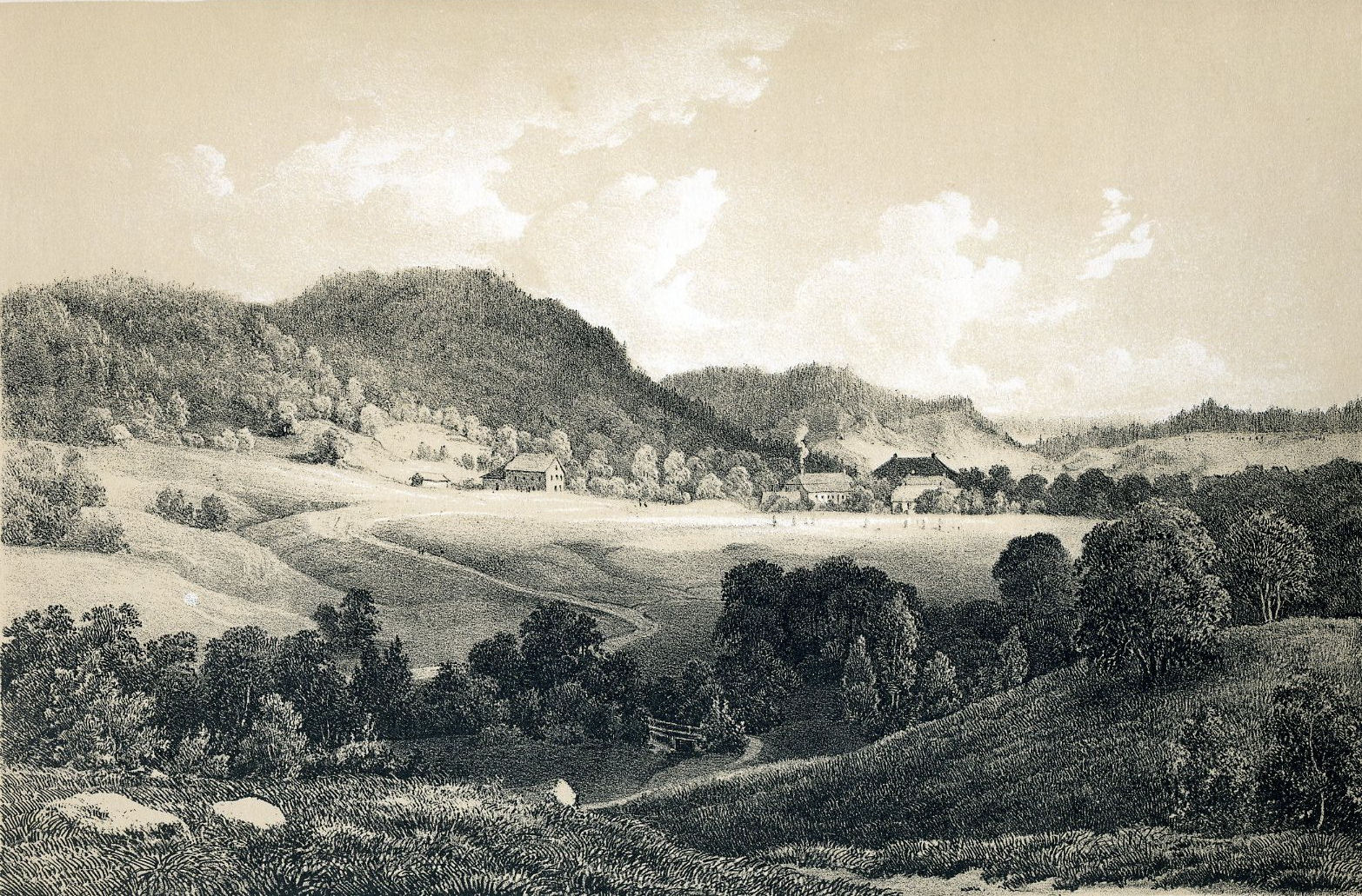 Pictures from the Work "Norge fremstillet i billeder" 1848 by Chr. Tønsberg. Nes Ironworks, Holt, Tvedestrand municipality, Aust-Agder county, Norway.